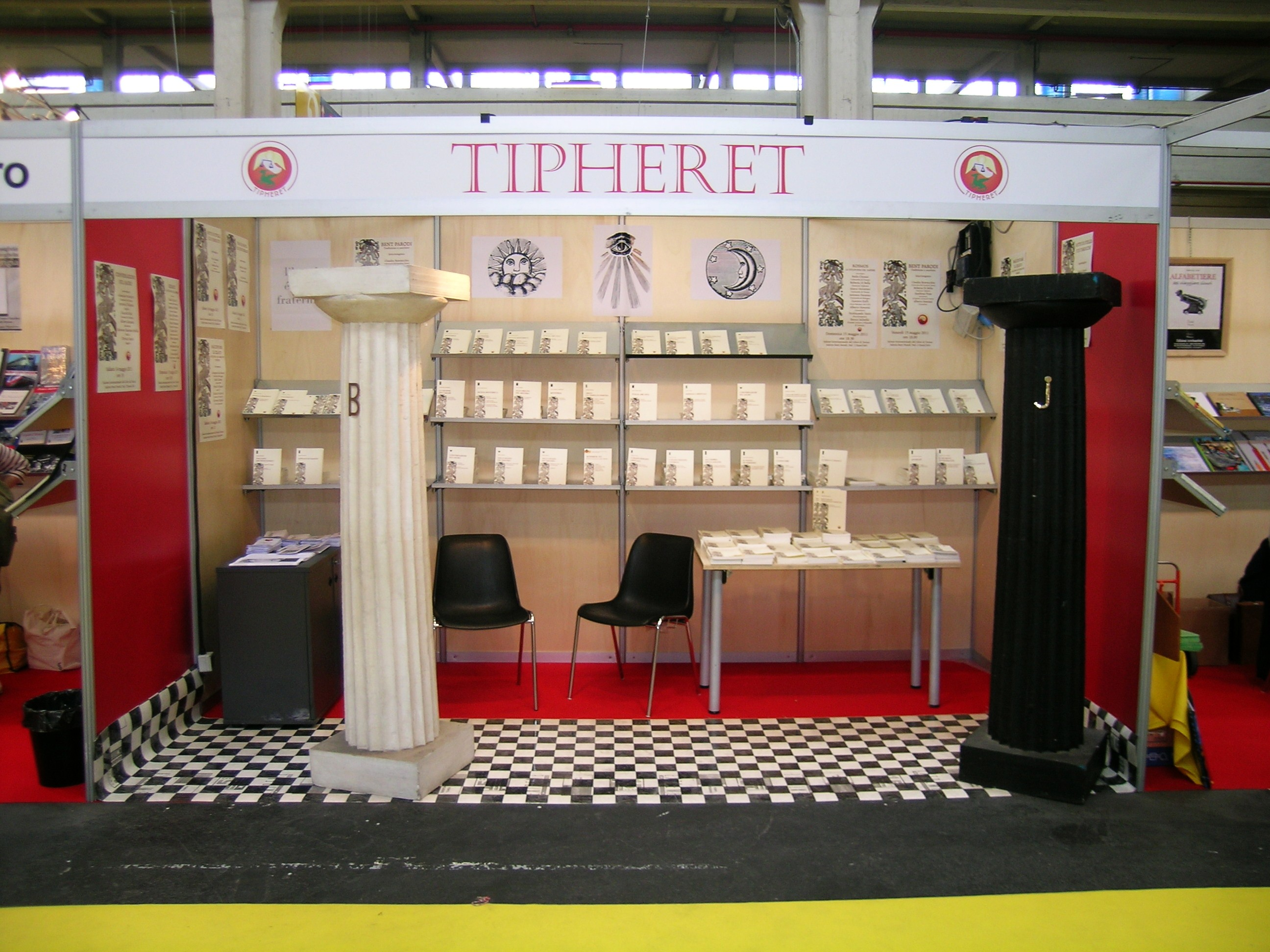 The spectacular stand of publishing house Tiphareth, which takes its name from Central Sefirot of the Tree of Life. Tiphareth, "Beauty" brings harmony between Ghevura ', strength, and Chesed, love, then love is measured, or Compassion. As in the entrance of the temple of King Solomon, there are two columns B and J, Boaz and Jachin.